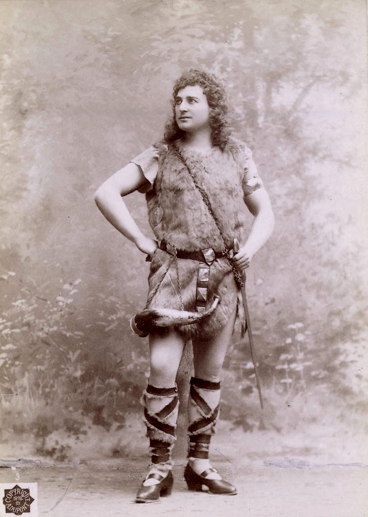 Andreas Dippel in the title role of Wagner's Siegfried.